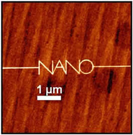 Silicon nanowire transistor fabricated by local oxidation nanolithography with the word 'NANO'. This pattern exhibits a good electrical response based on in the SiNW properties only.